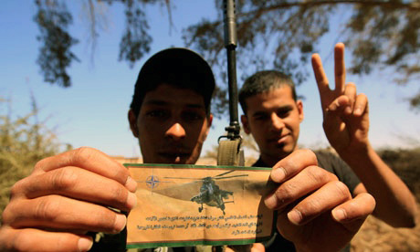 Two Libyan civilians show off a leaflet that was released from NATO assets during Operation Unified Protector. The 20th Fighter Wing had the unique role of dropping leaflet bombs to give NATO messages for the safety of Libyan civilians.